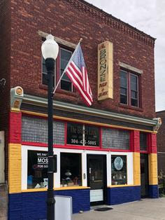 A retail business located in the Mercer Street Historic District